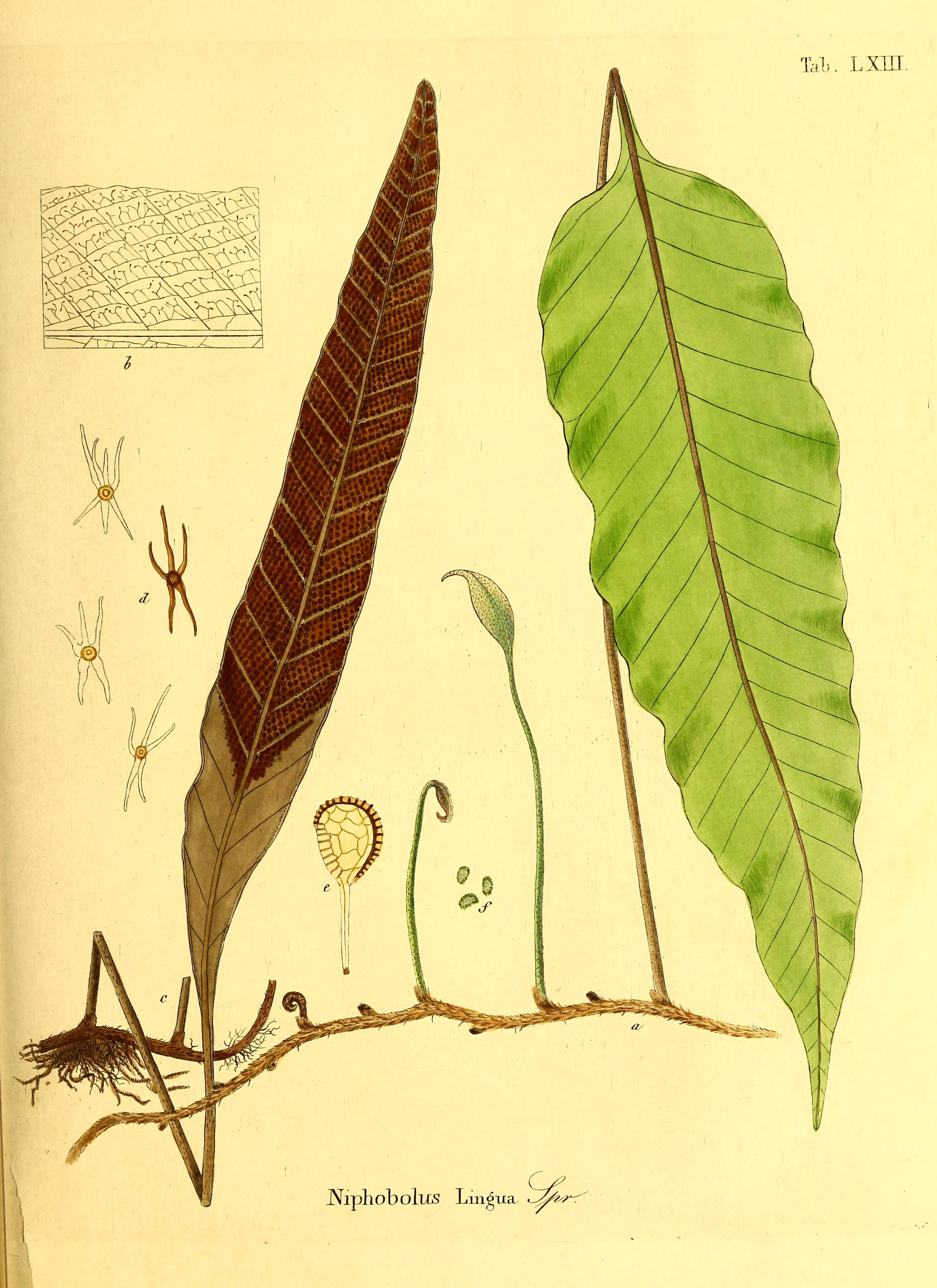 Title: Die Farrnkräuter in kolorirten Abbildungen naturgetreu Erläutert und Beschrieben Year: 1840 (1840s) Authors: Kunze, Gustav, 1793-1851 Subjects: Ferns Publisher: Leipzig, E. Fleischer Text Appearing Before Image: ' Text Appearing After Image: '